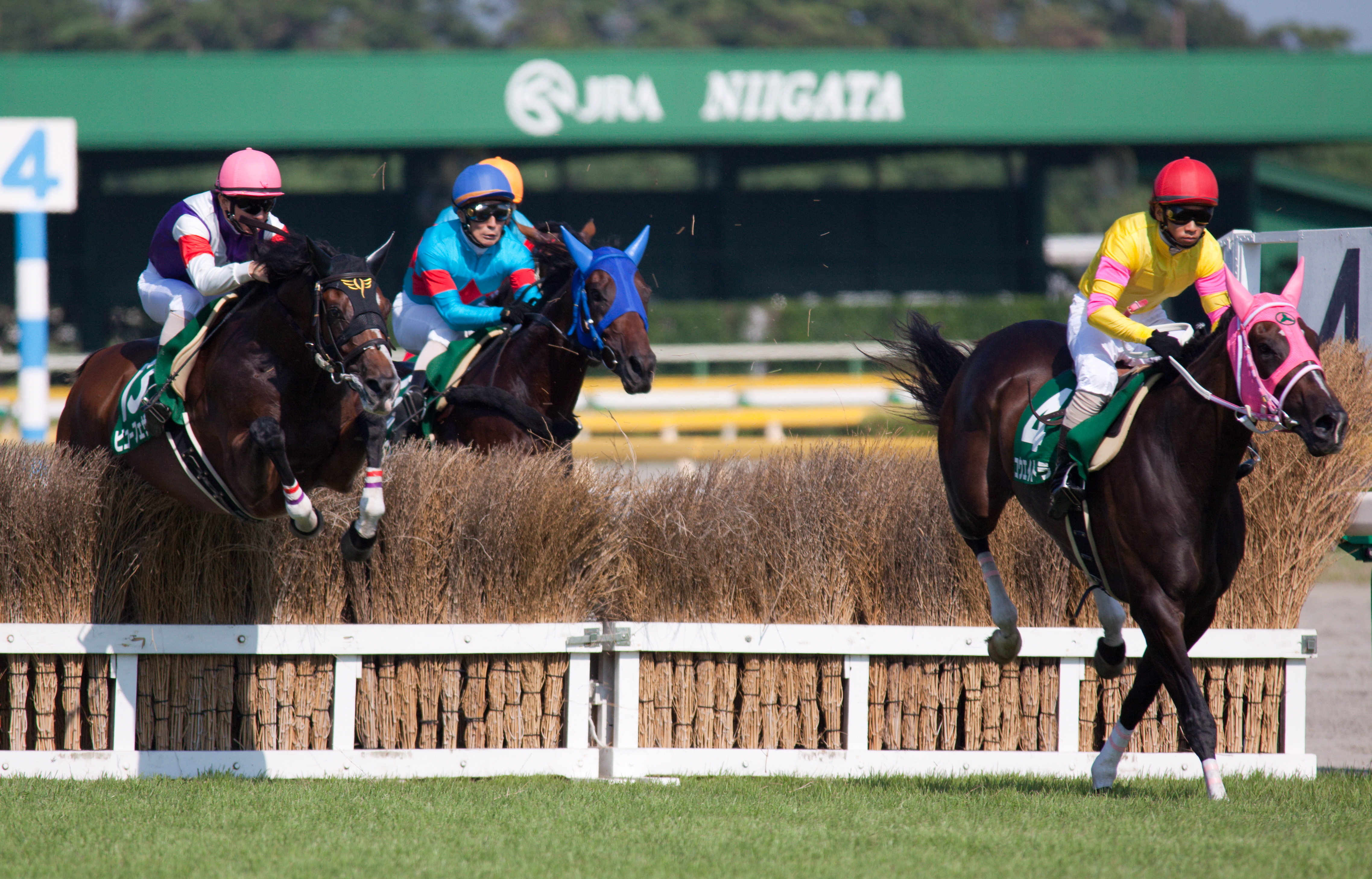 Niigata Jump Stakes(2010)